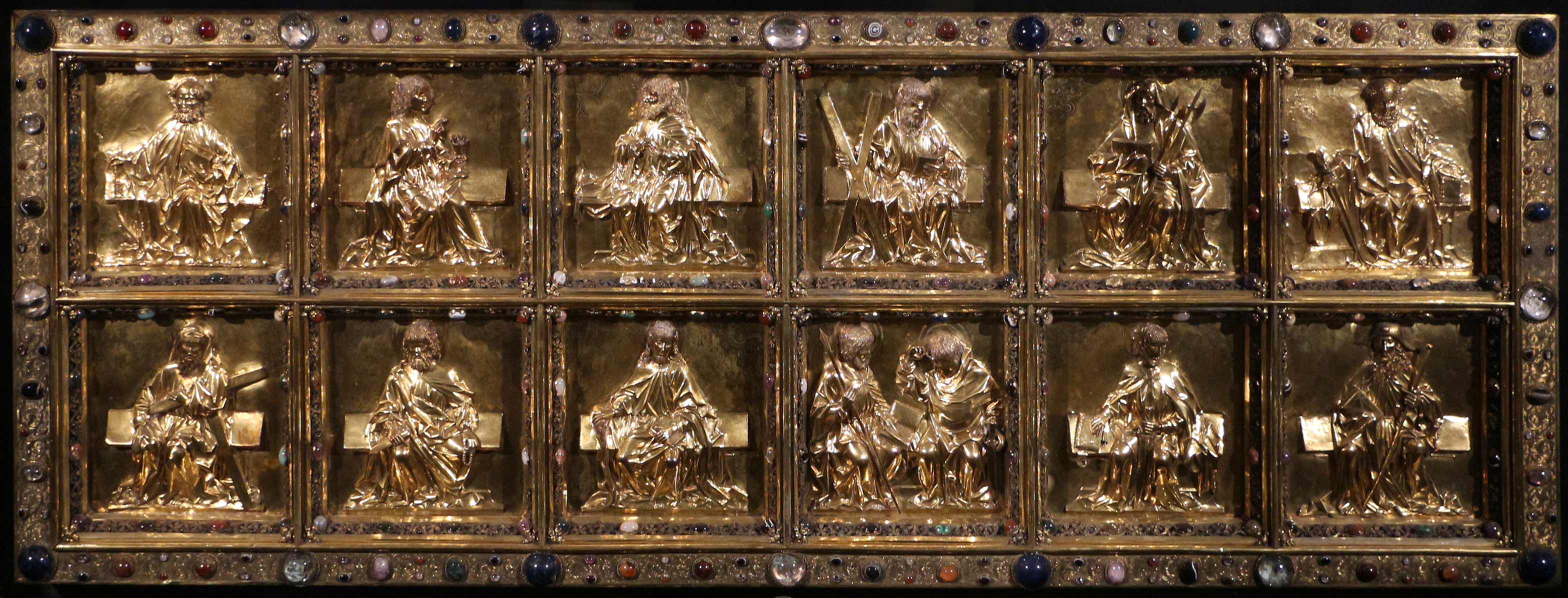 Antependium of the Apostles